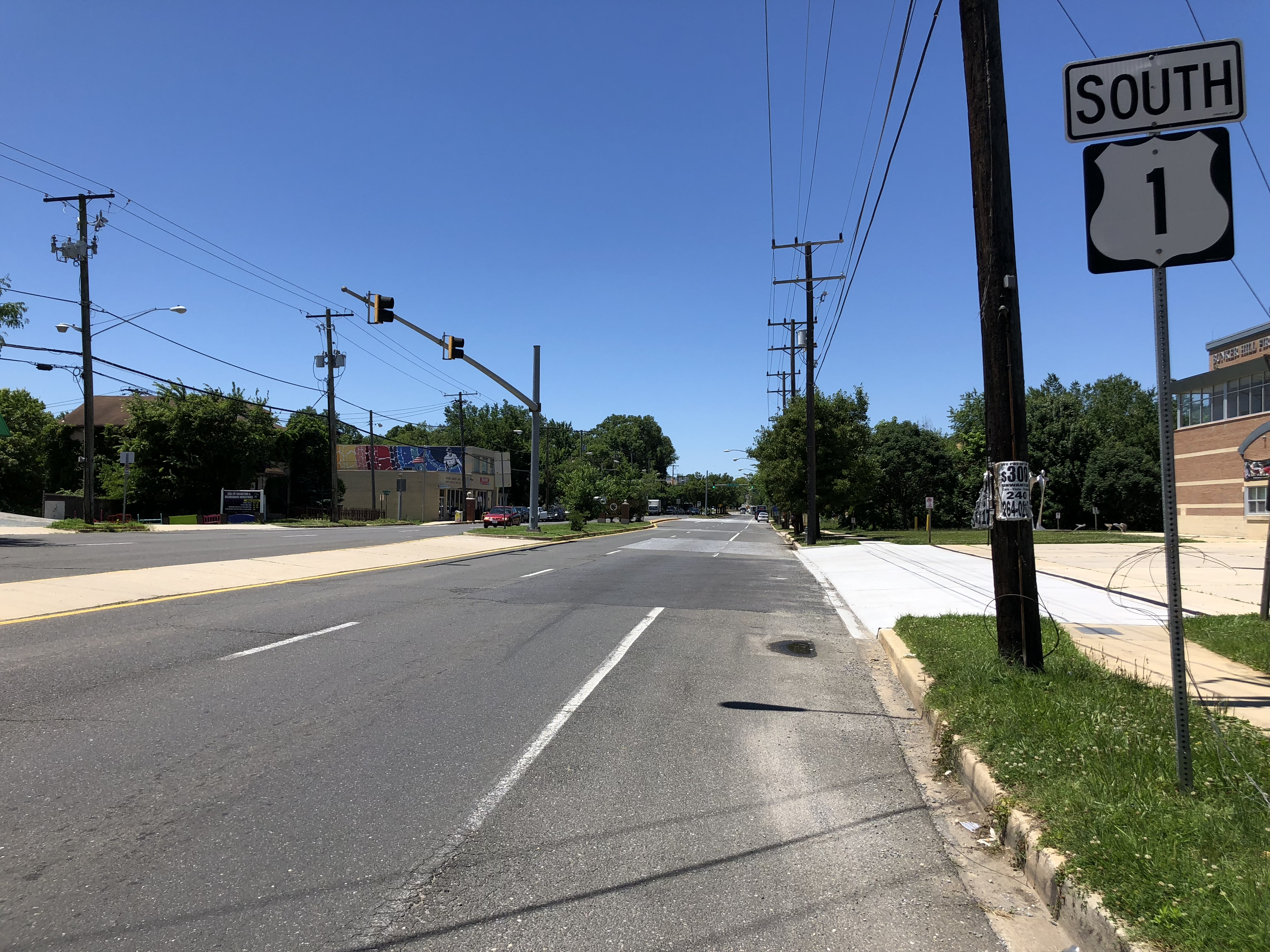 View south along U.S. Route 1 (Rhode Island Avenue) just south of Maryland State Route 208 (38th Street) in Brentwood, Prince George's County, Maryland